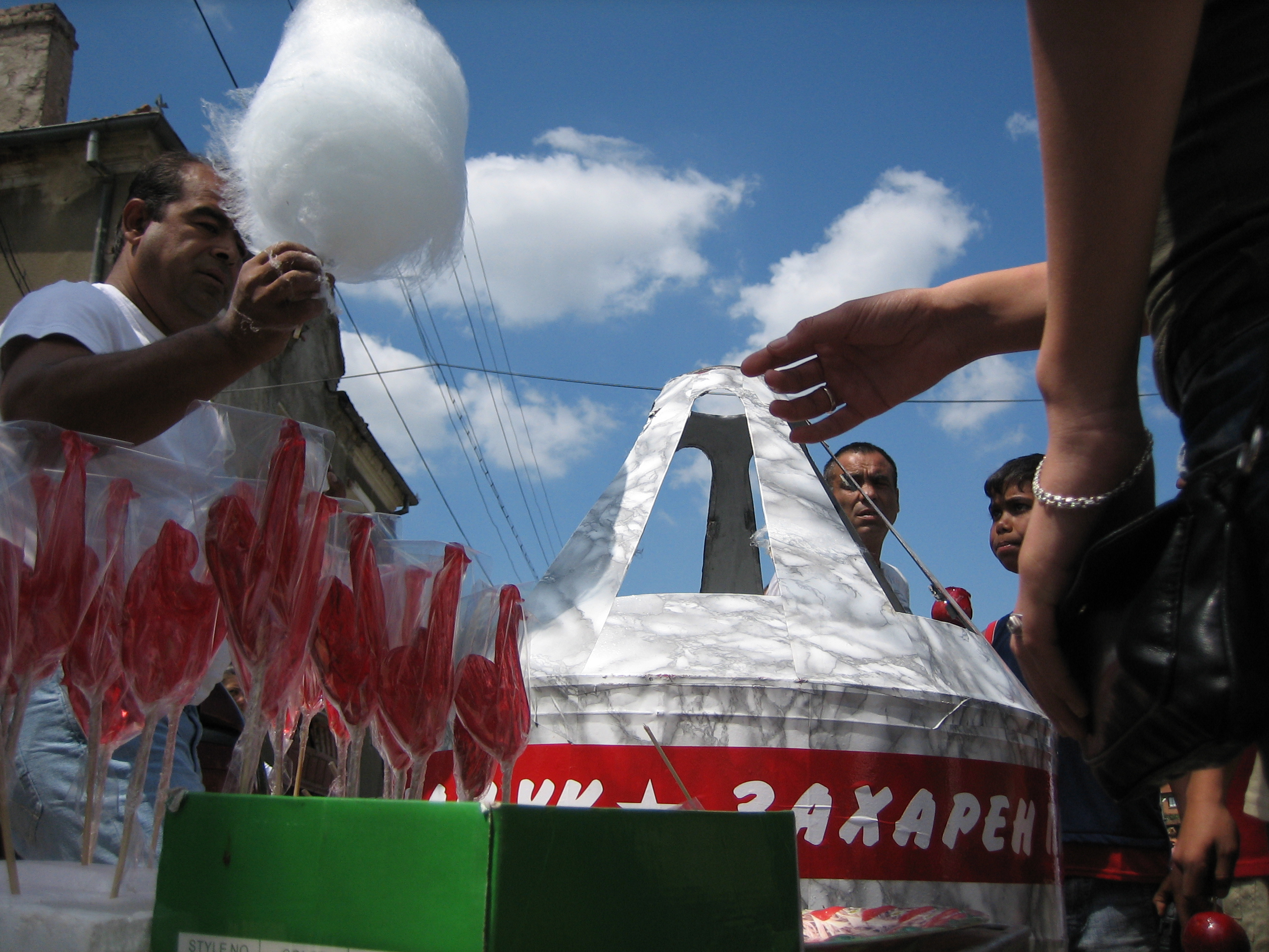 Celebrations in Gradets.